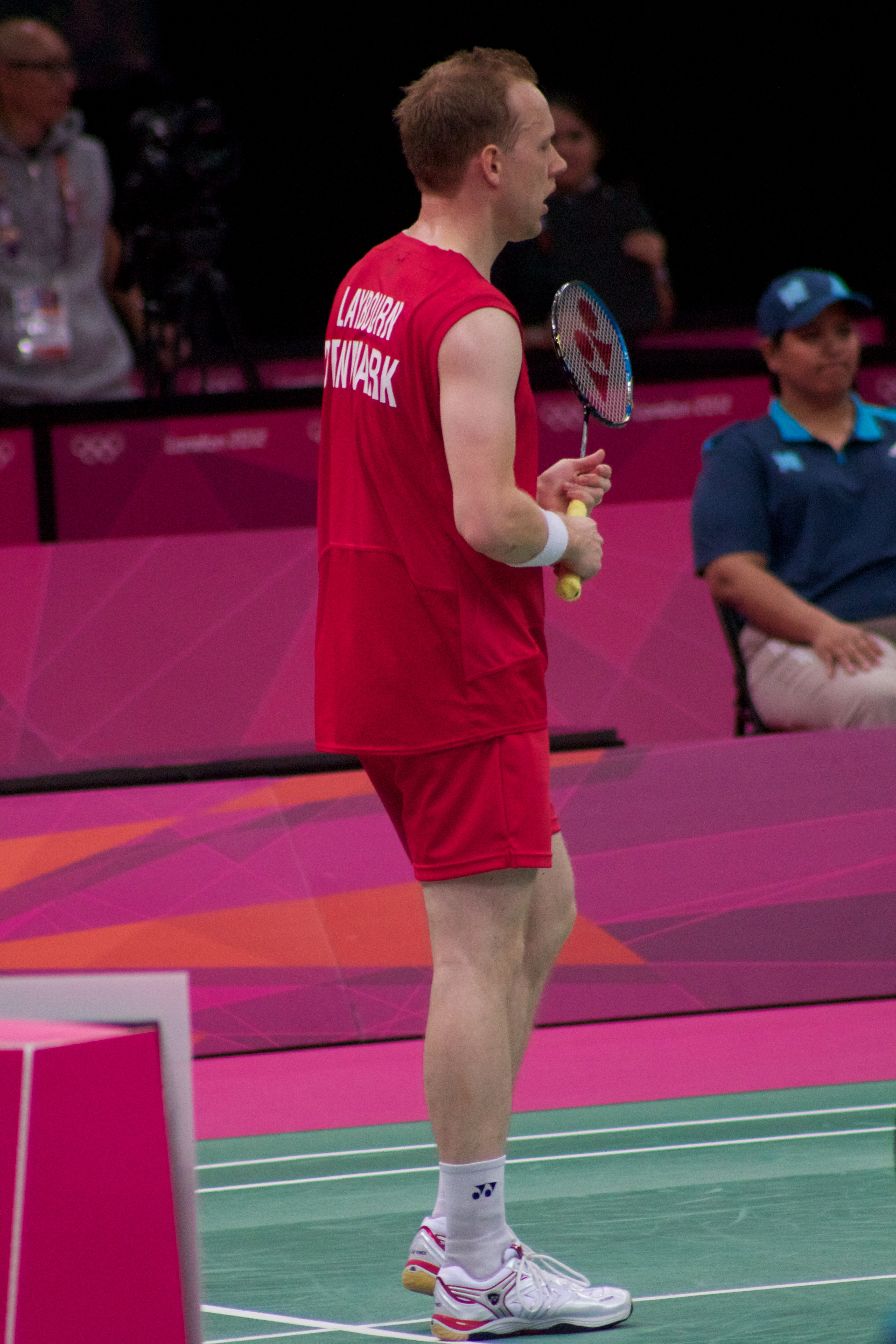 Badminton at the 2012 Summer Olympics